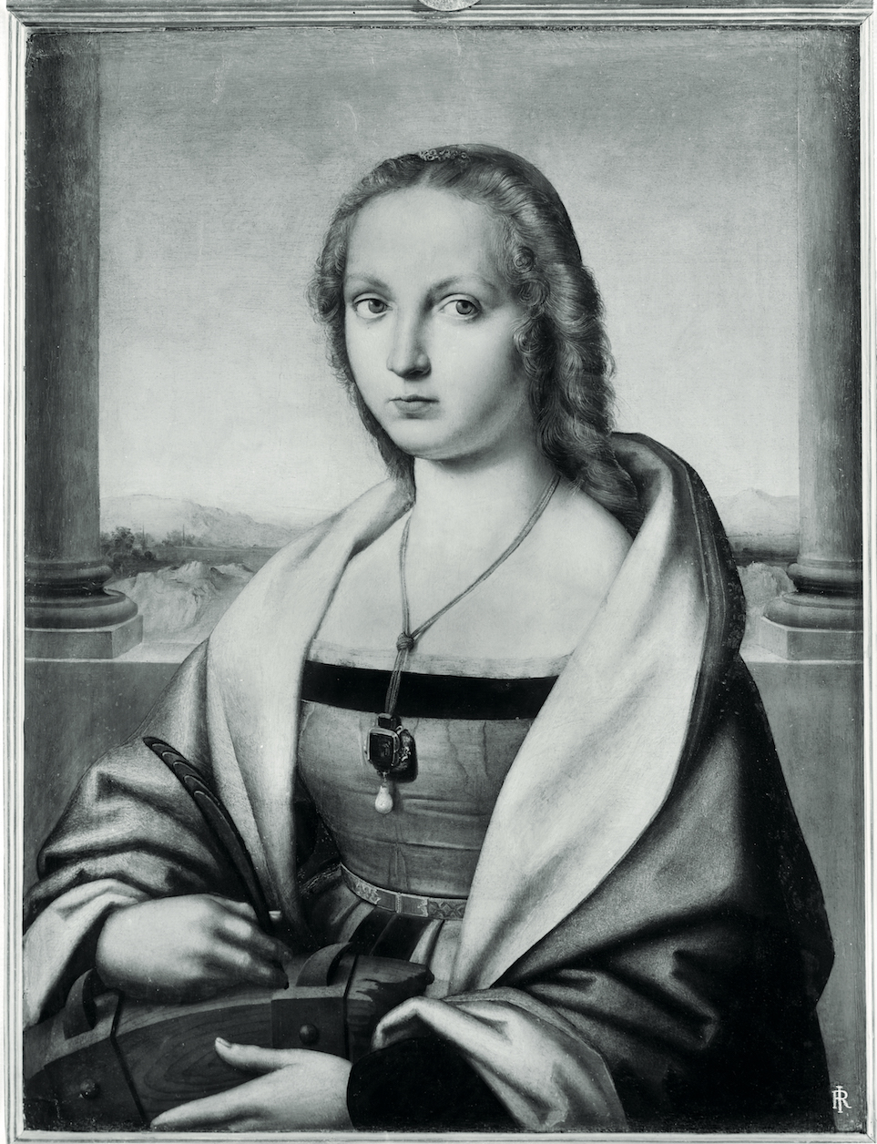 How she appeared before the first restoration, as St. Catherine of Alexandria with wheel and palm frond.